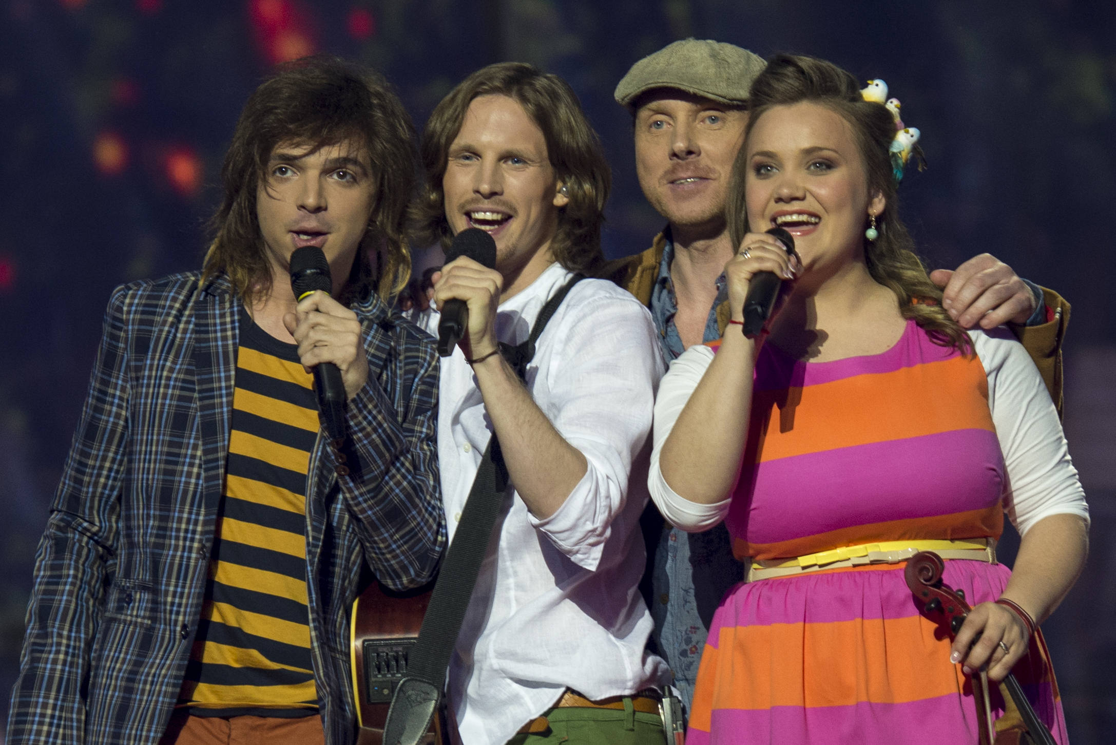 Aarzemnieki representing Latvia with the song "Cake to Bake" during the first dress rehearsal of the first semi final of the Eurovision Song Contest 2014 Copenhagen. (Help translate this text)